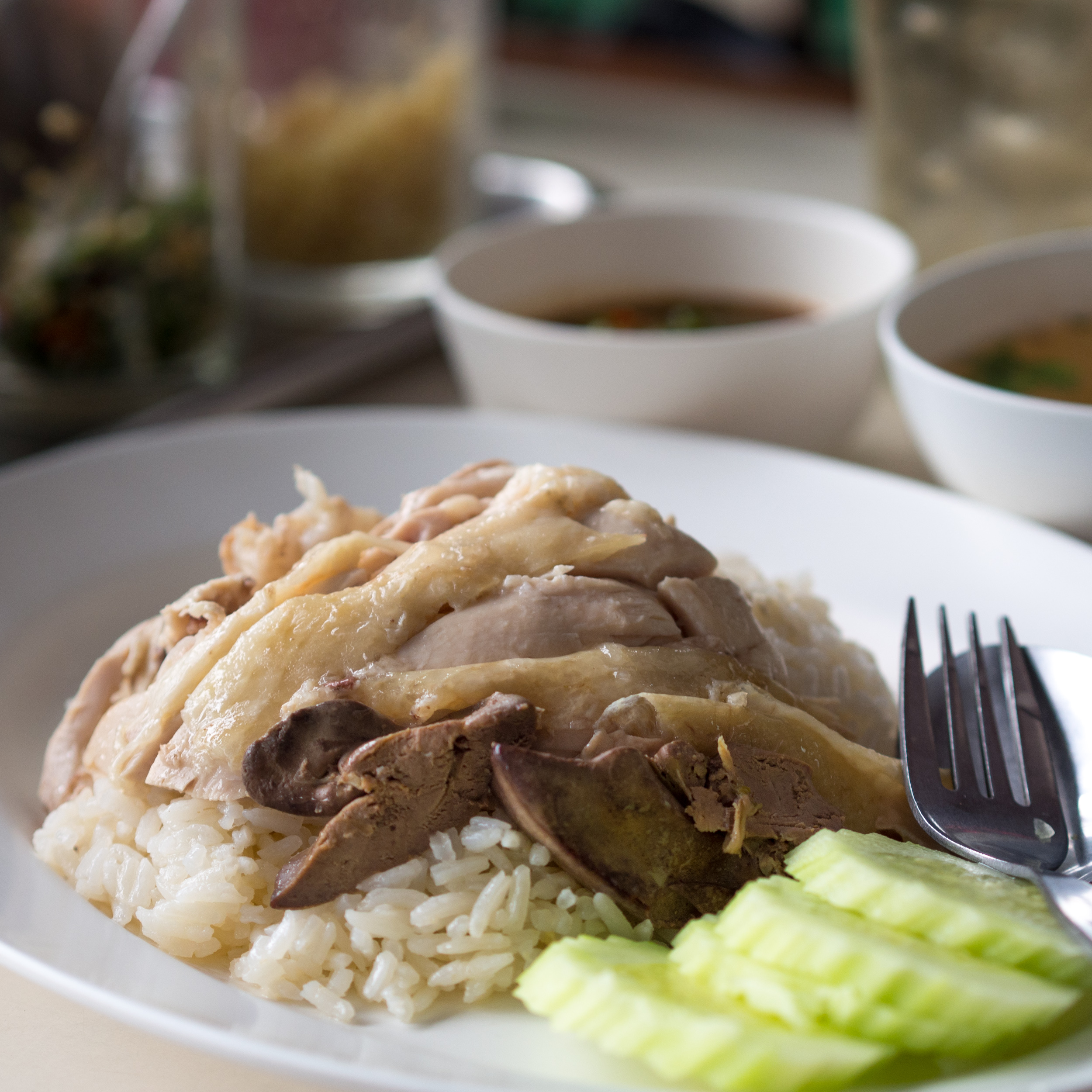 Khao man kai (Thai script: ข้าวมันไก่) is the Thai version of Hainanese chicken rice. It is rice boiled with garlic and oil in a light chicken broth, and which is served with slices of boiled chicken, a bowl of chicken broth, and, in the Thai version, a dipping sauce containing fermented yellow bean paste, chopped ginger, chopped Thai chilli peppers and thick soy sauce. A few pieces of curdled blood (black pudding) are also often included. Sometimes, if available, one can also ask to have chicken liver included as shown on this image.